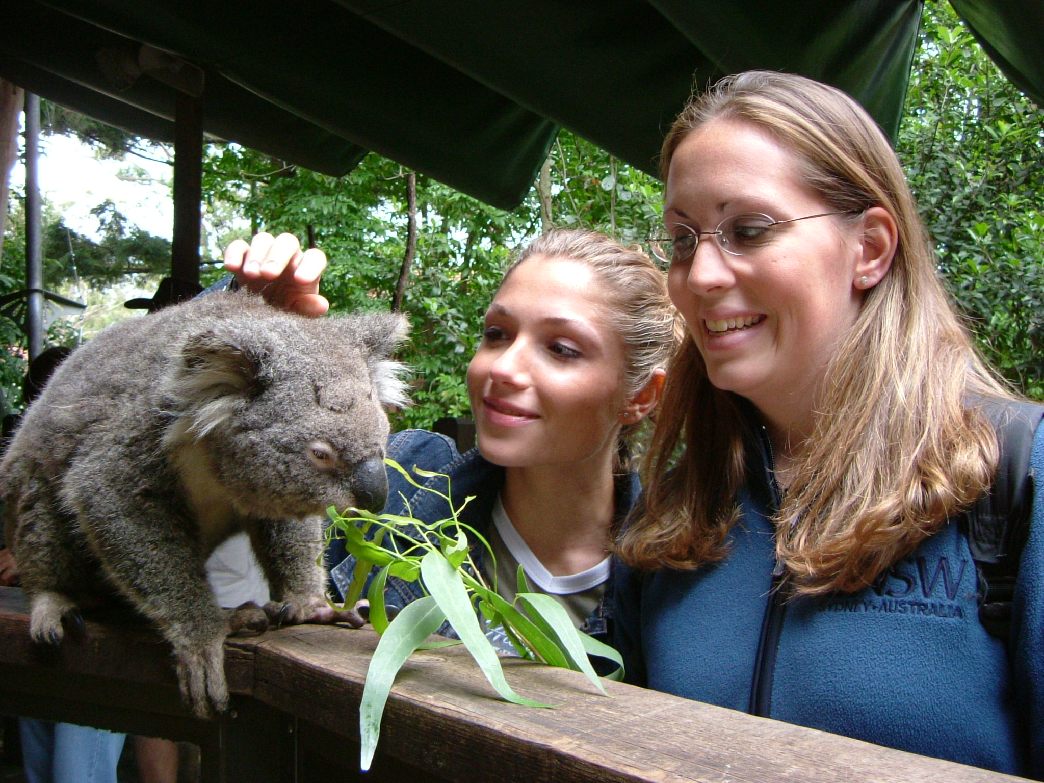 Two Girls Koala animals friends